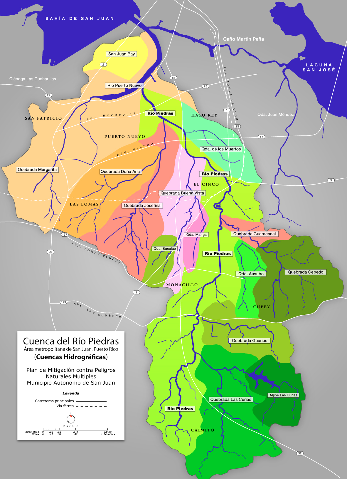 Cartographic map as drafted by the Departamento de Recursos Naturales y Ambientales (Department of Natural and Environmental Resources) in 2004 of the Cuenca del Río Piedras, also known as the San Juan Bay Estuary Watershed and the Río Piedras Watershed.